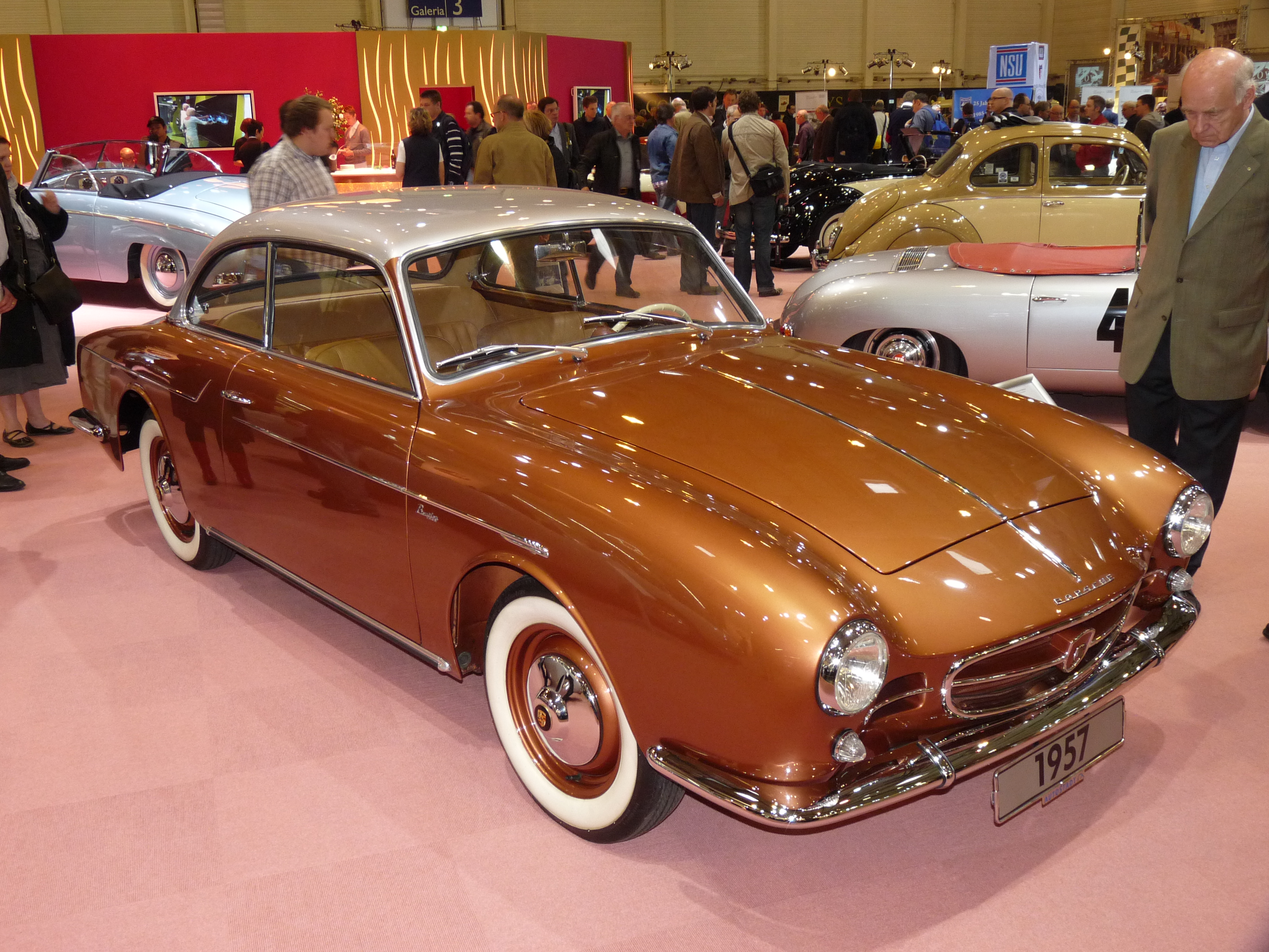 VW Beetle-based Beutler “Volkswagen-Porsche Coupe”, 1957, coachwork by Swiss company Beutler, fitted with Porsche 356 engine and brakes